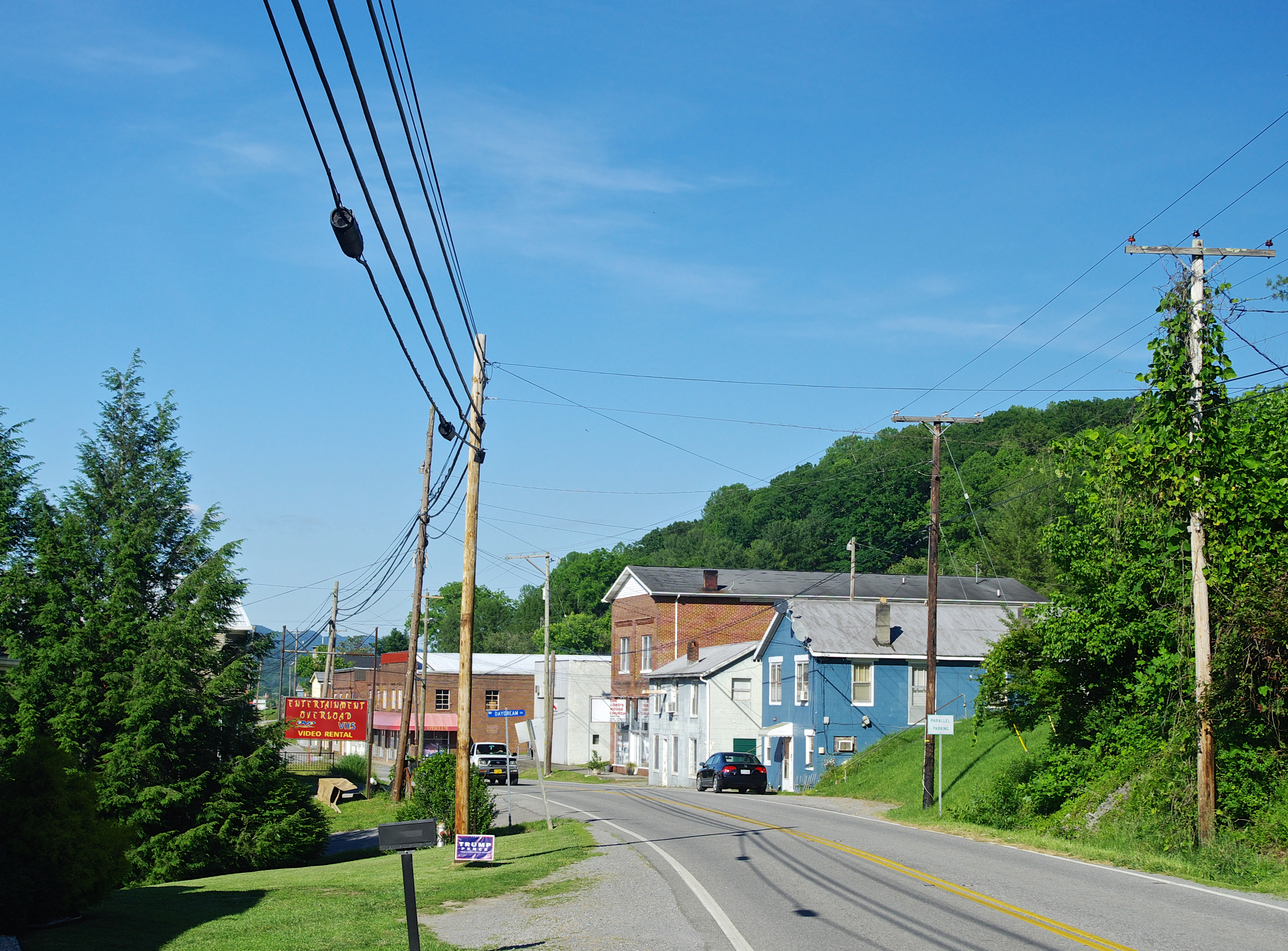 Dr. Thomas Walker Road entering Rose Hill, Virginia, United States.